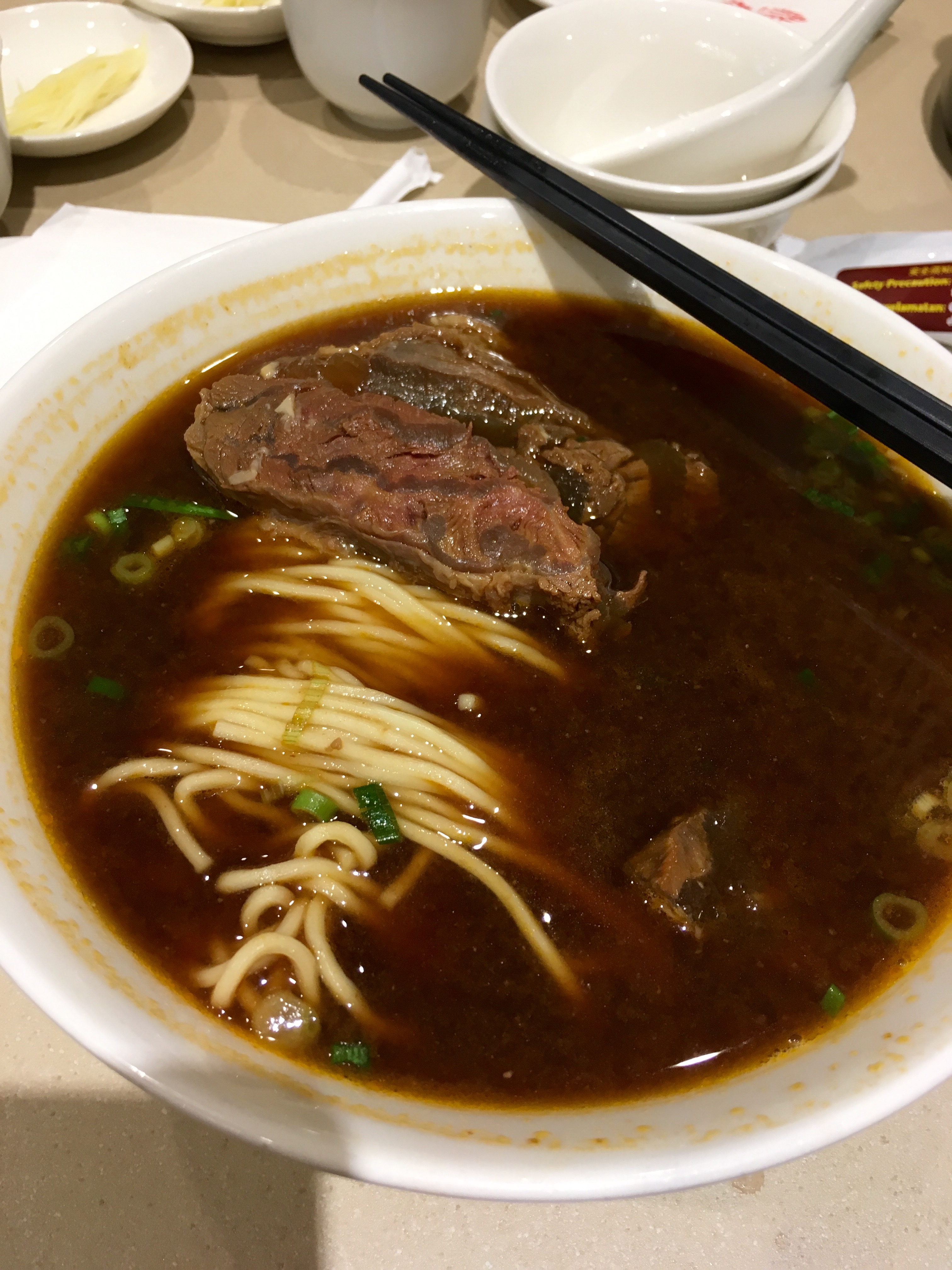 Braised beef noodle soup with beef brisket from Din Tai Fung restaurant in City Square Mall, Singapore